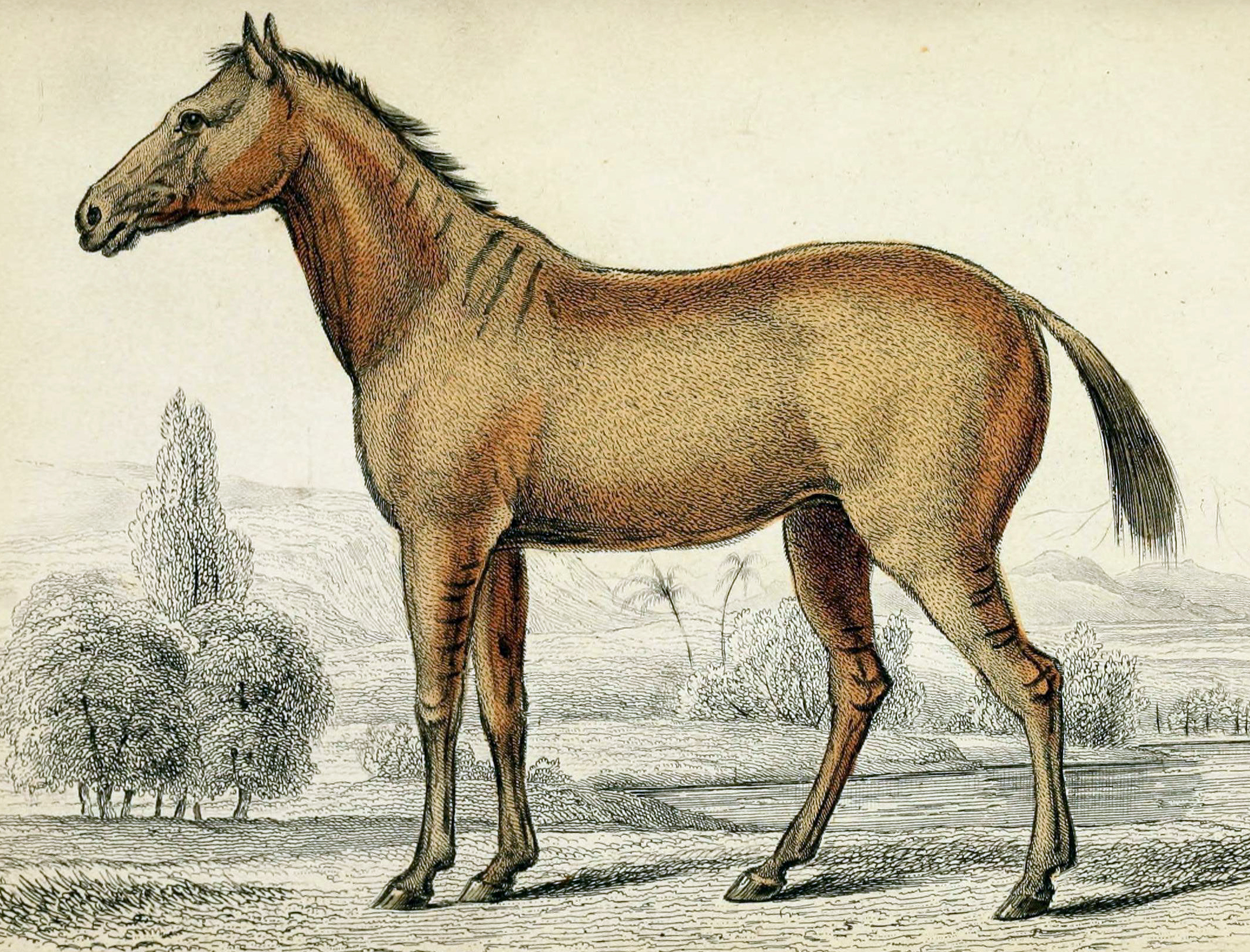 Hybrid first foal of brood mare and quagga.